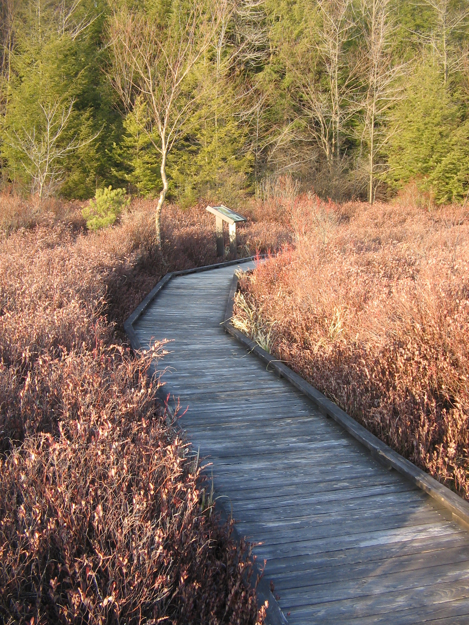 The boardwalk bog trail in the Black Moshannon Bog Natural Area at Black Moshannon State Park, near Phillipsburg, Rush Township, Centre County, Pennsylvania, USA.